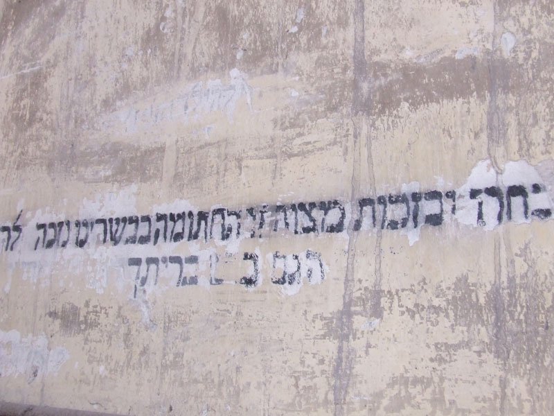 Synagogue in Bychawa